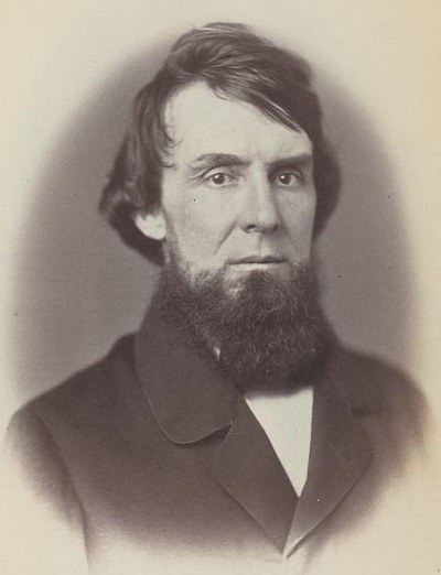 John C. Kunkel (Pennsylvania Congressman)